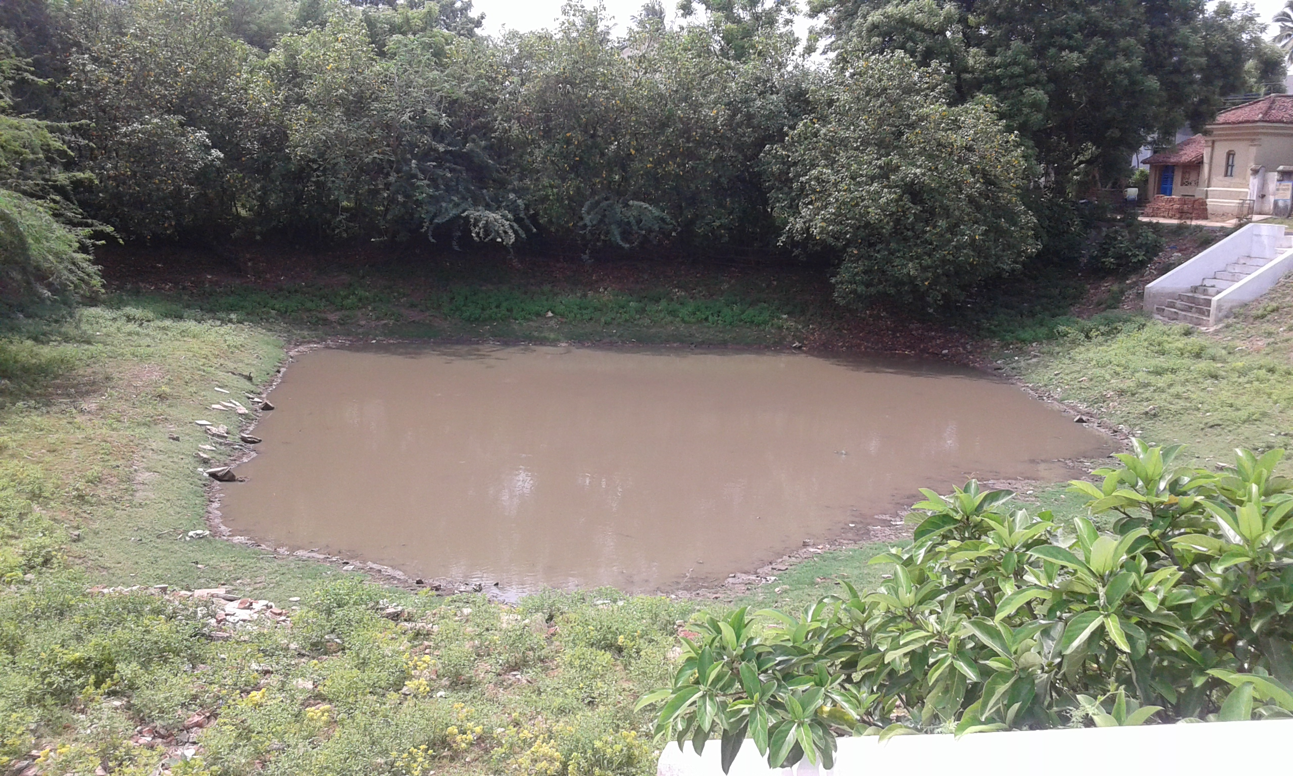 Vaikunda vinnagaram